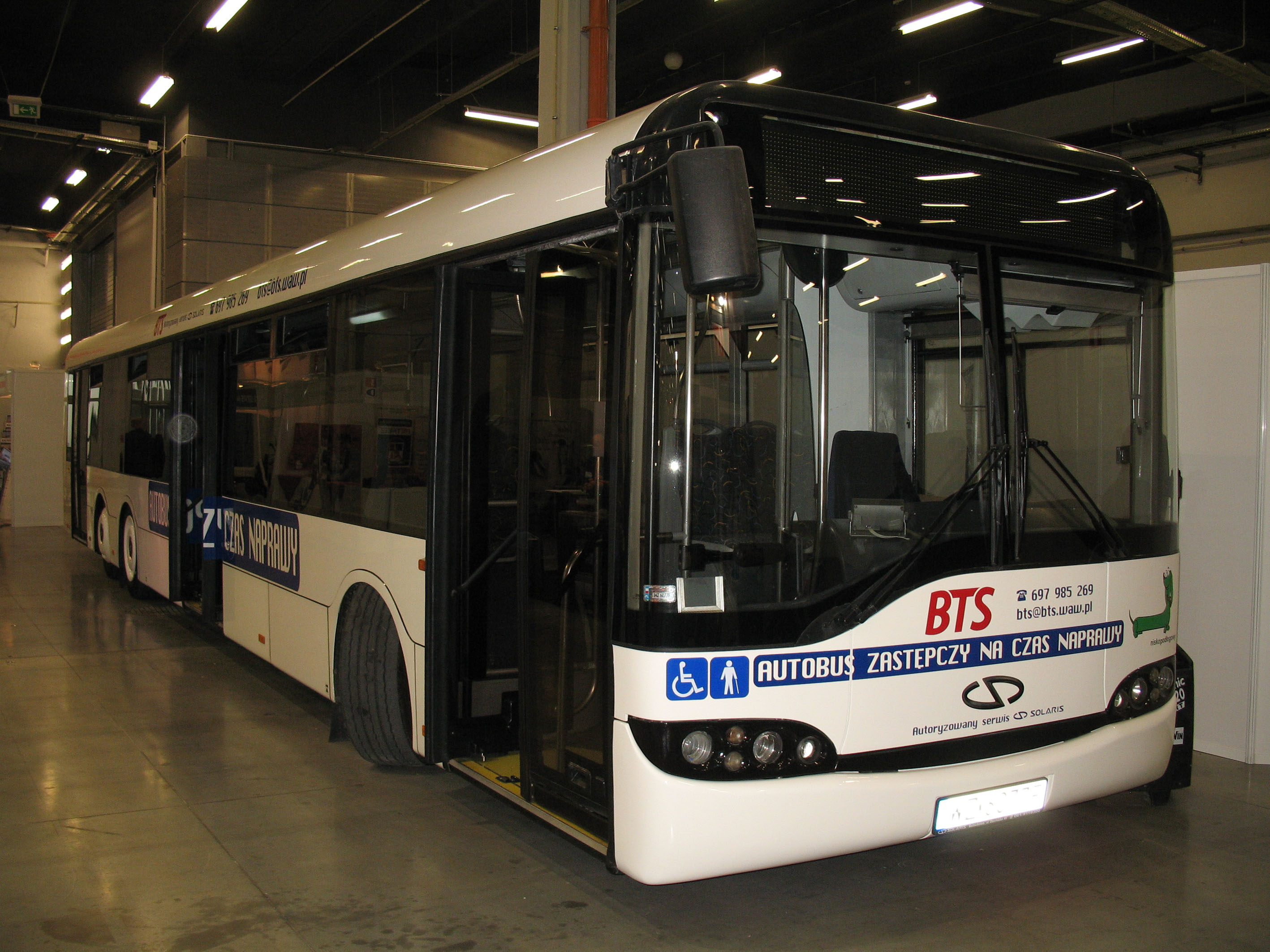 Solaris Urbino 15 Mk1 bus (reg. WZ 6077F) in Kielce, Poland. Built 2000, Bus & Truck Service (BTS) from Wyględy operator. Transexpo 2011.